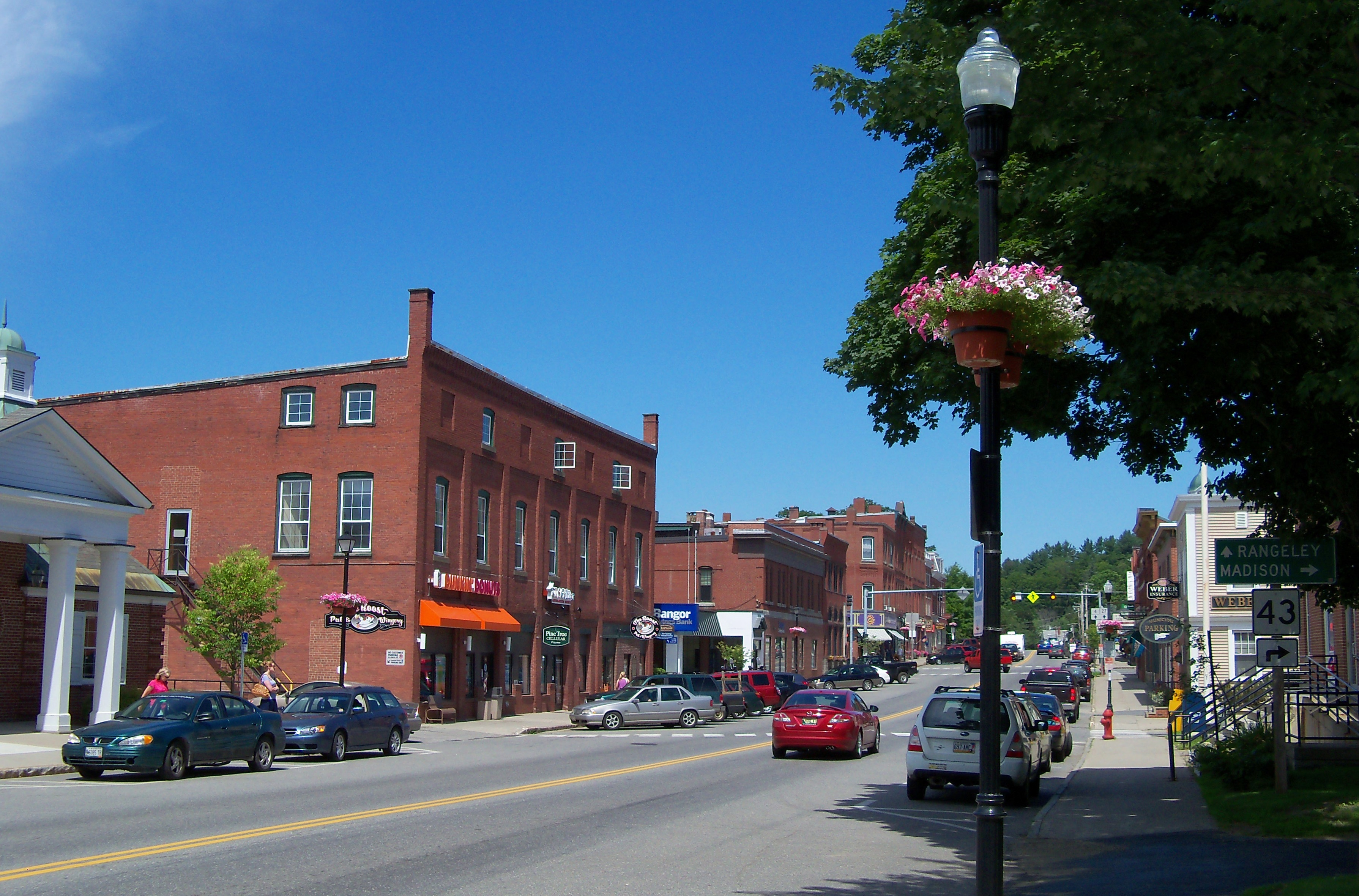 Street in downtown Farmington, Maine, USA.